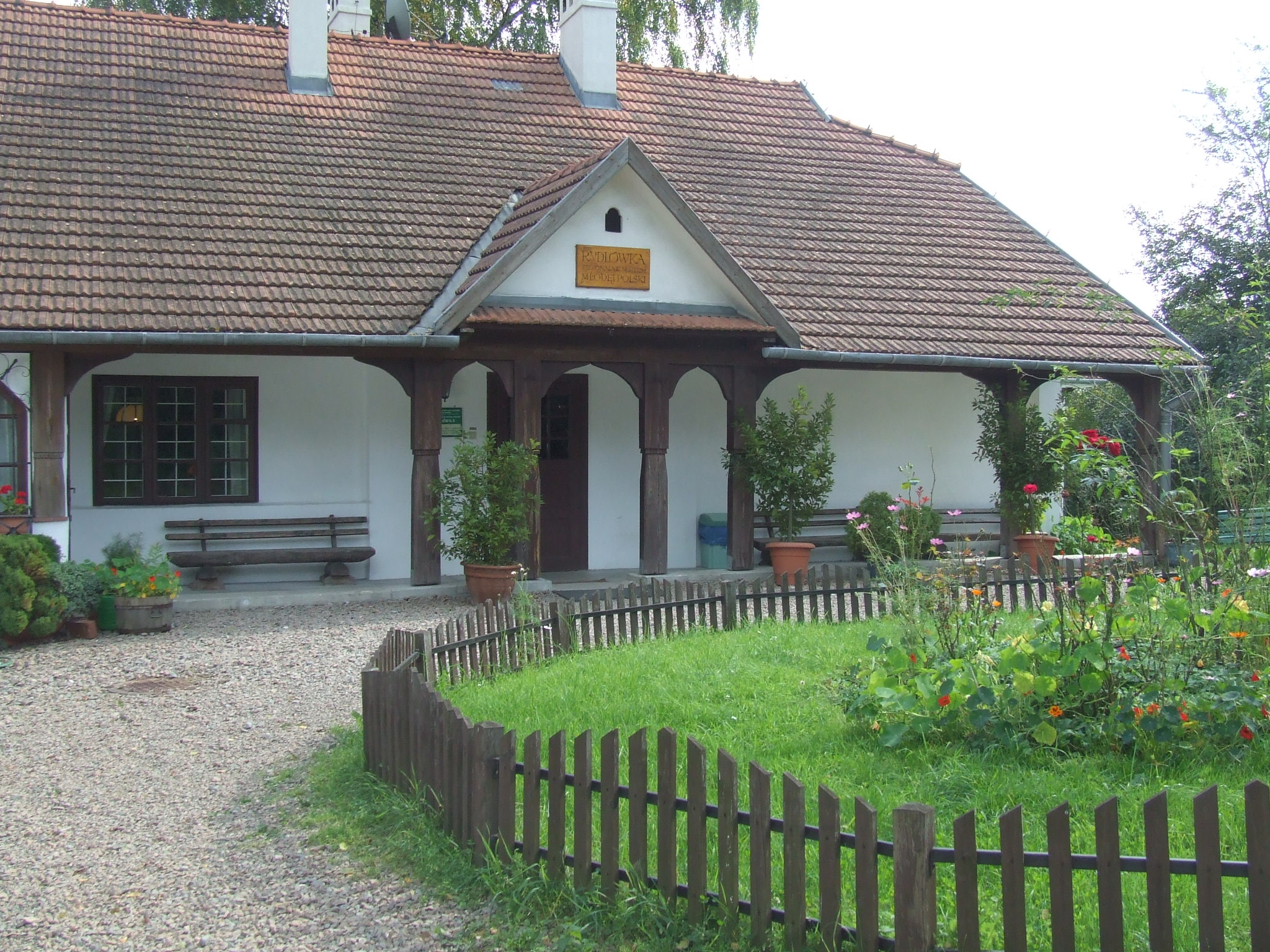 Lucjan Rydel house